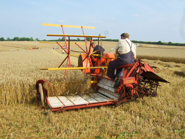 Corn harvesting, Little Casterton, Rutland, Great Britain. The Massey Harris binder about to start cutting the wheat. On the right of the binder the corn is bound into sheaves ready for collecting up. Sheaves are rarely seen today apart from church harvest festivals.